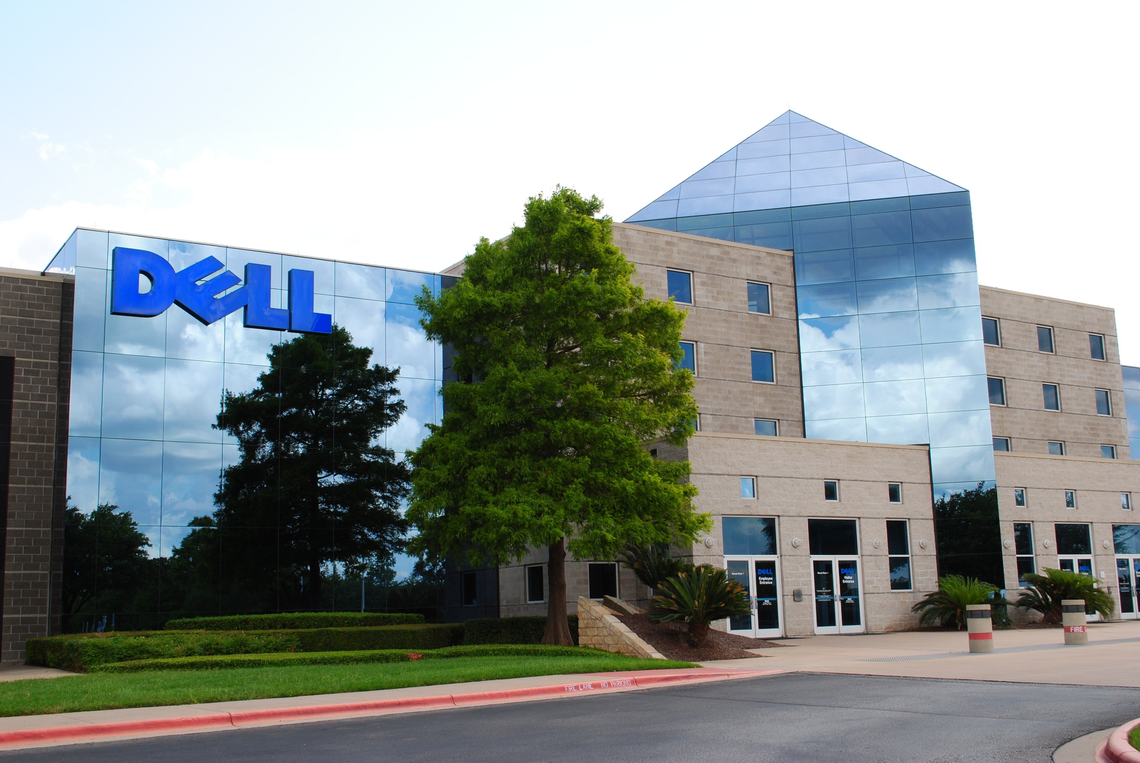 Dell HQ RR1, Round Rock, Texas